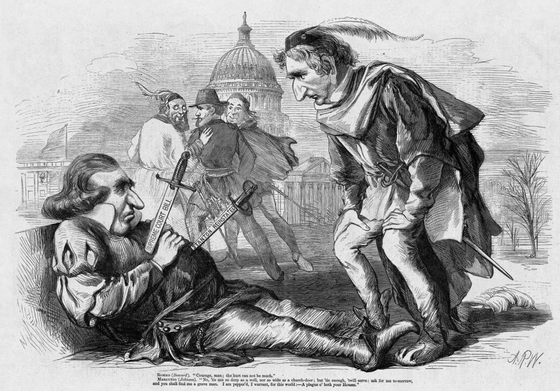 Andrew Johnson (left) as Mercutio wishes a plague on both Houses of Congress as Romeo (William H. Seward) leans over him